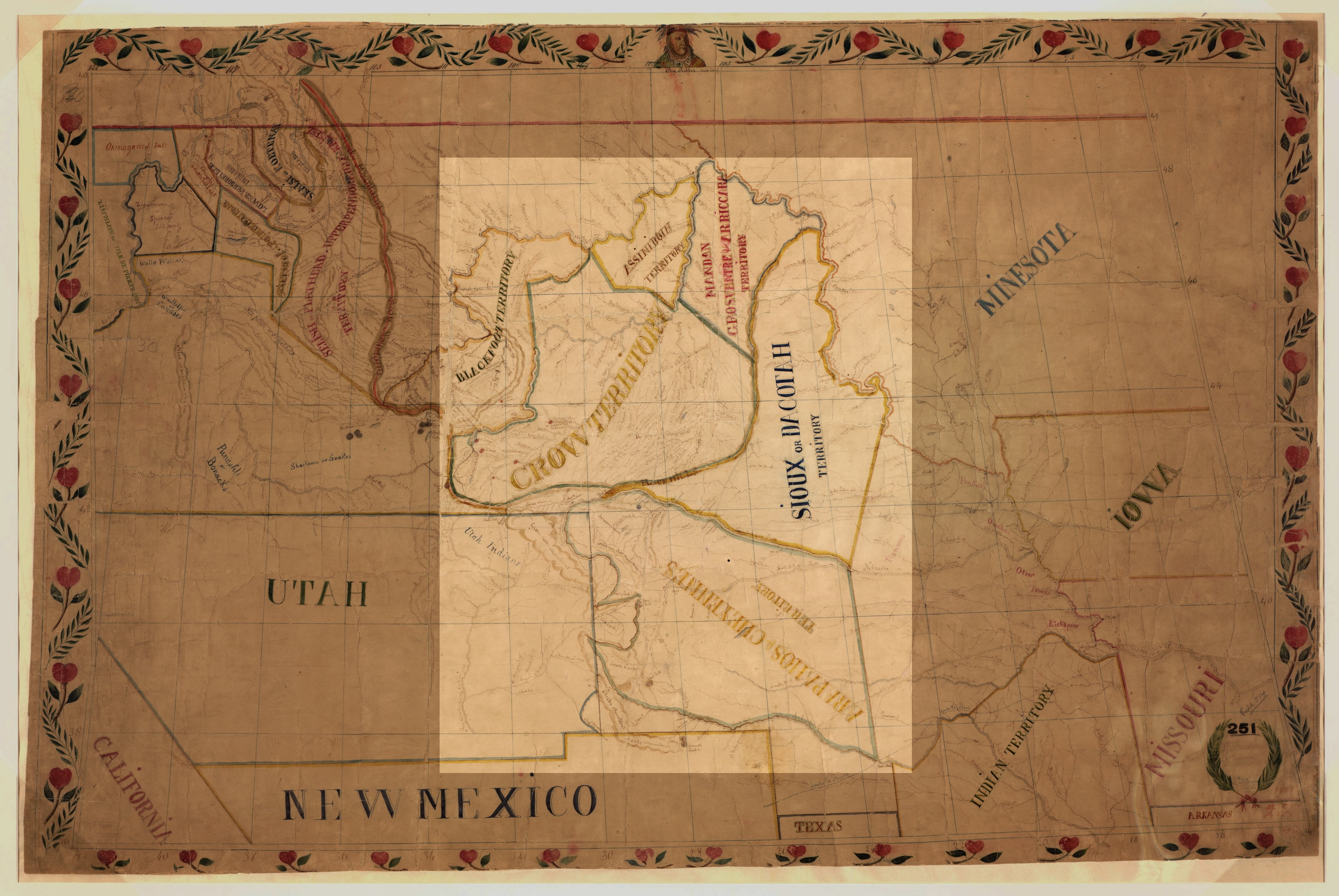 Map of Pierre-Jean De Smet in 1851. The Indian territories agreed upon in the Fort Laramie Treaty (1851) is shown in the light area: Assiniboine, Arikara, Hidatsa and Mandan, Sioux (Dakota or Lakota), Crow, Arapaho and Cheyenne